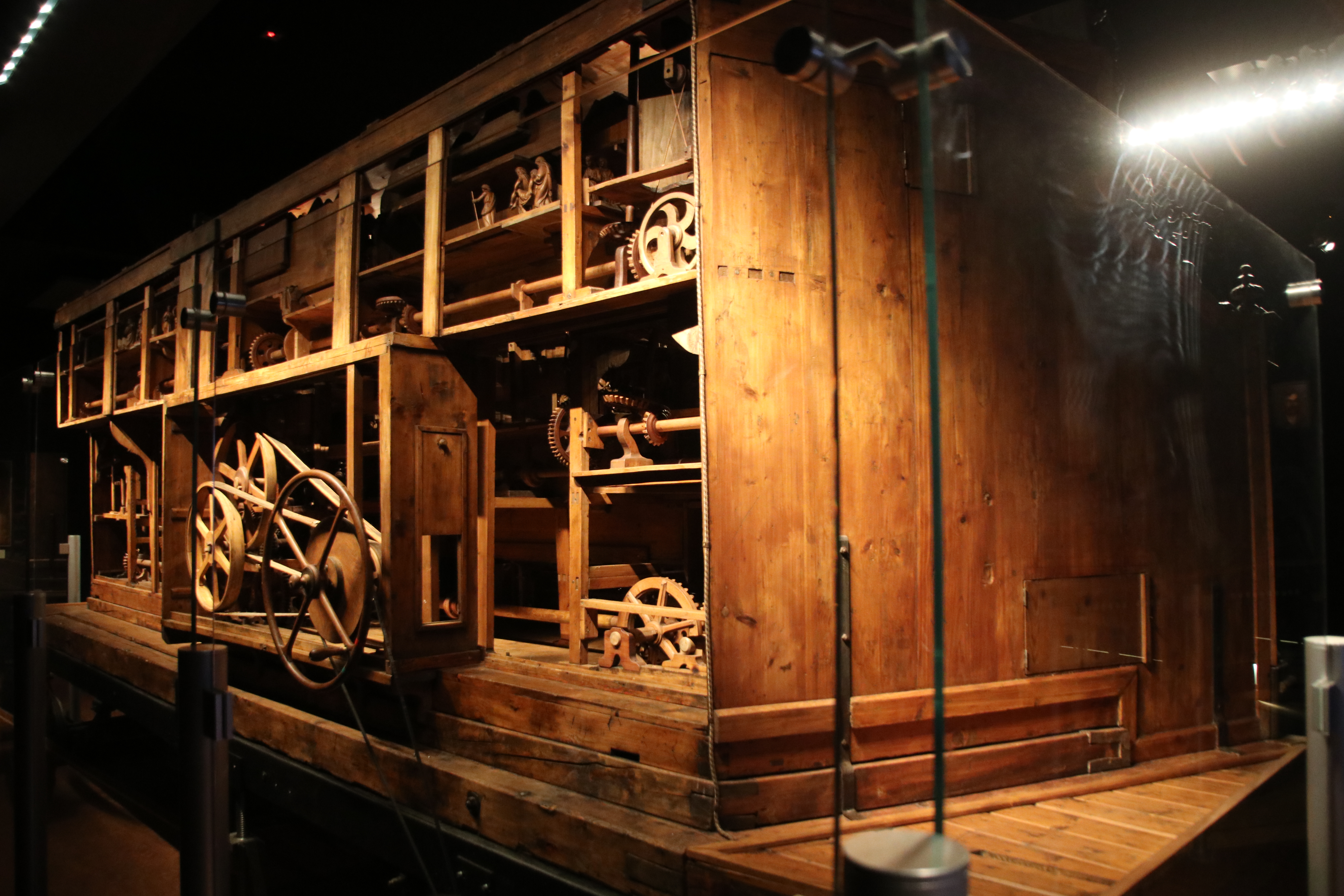 Mechanical nativity scene. Bethlehem of Třebechovice (Probošt's Christmas crib). Mechanics in the back.